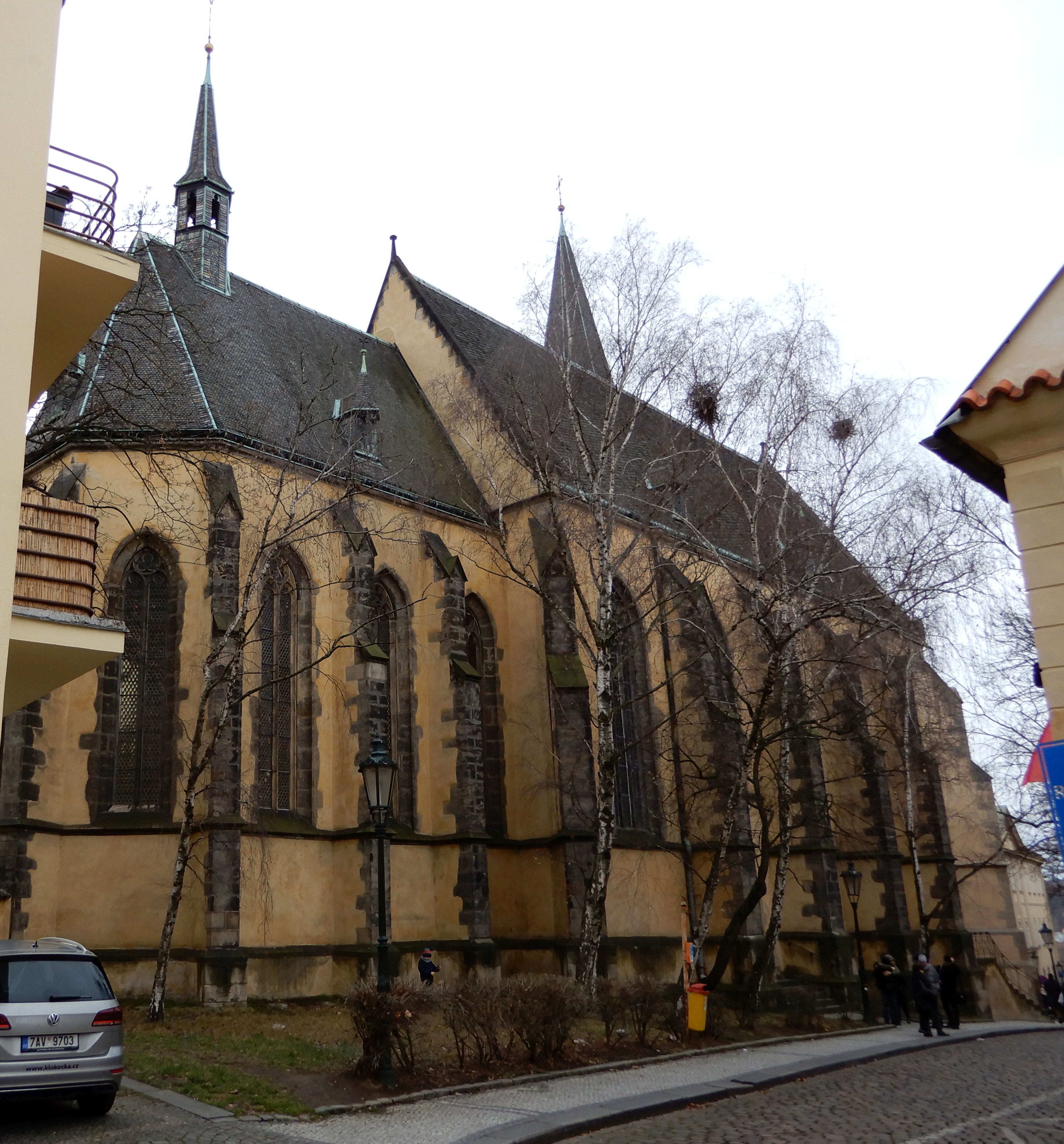 St. Apollinaris Church Prague, view from NW